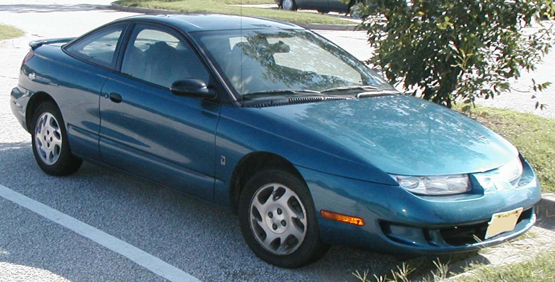 1997-2000 Saturn SC photographed in USA.